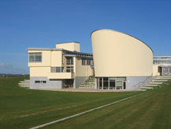 Marine Institute Headquaters, Galway,Ireland